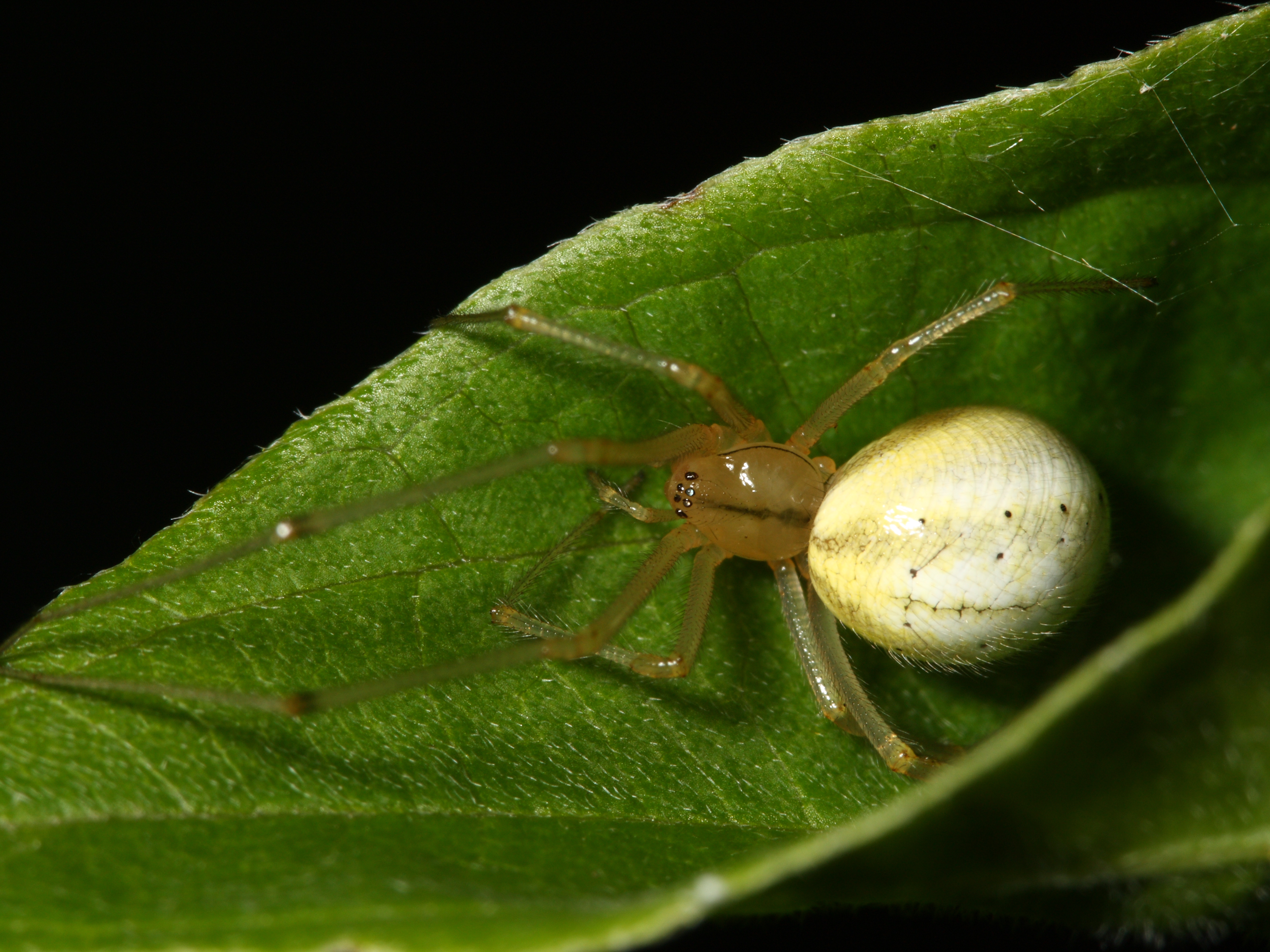 Female comb-footed spider (family Theridiidae), Enoplognatha ovata. Photographed in the wild at DuPage County, Illinois, USA. Size = 15mm